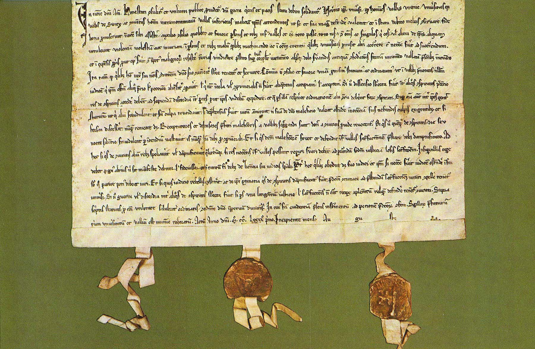 The Swiss Federal Charter of 1291.